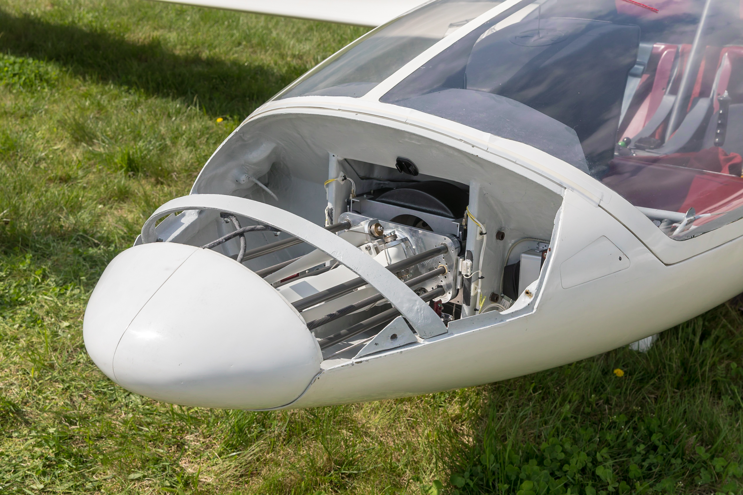 Retractable propeller of the Akaflieg Berlin B13e at ILA 2018